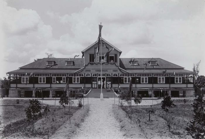 Boarding school at leprosarium Bethesda